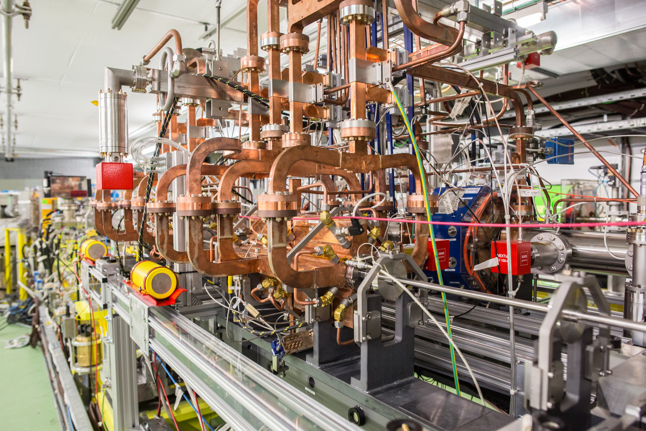 The so-called probe beam travels from right to left and is being accelerated by a gradient up to 100 MV/m along the two CLIC superstructures seen. A complex system of waveguides transport the 12 GHz RF power, produced by the deceleration of the drive beam traveling next to the probe beam, into the CLIC acceleration structures.